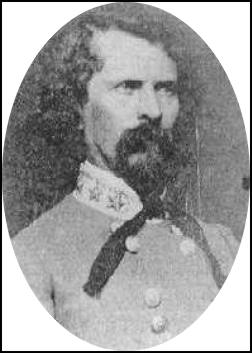 photo of Earl Van Dorn (1820-1863)